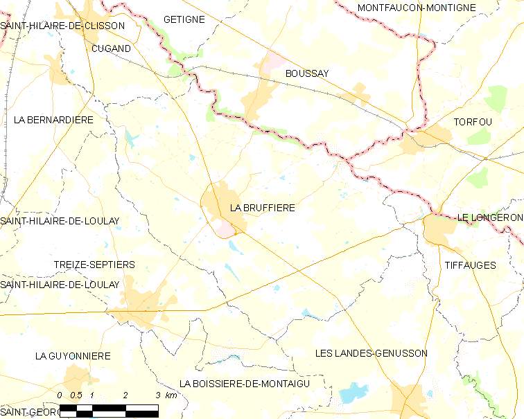 Map of French municipality La Bruffière